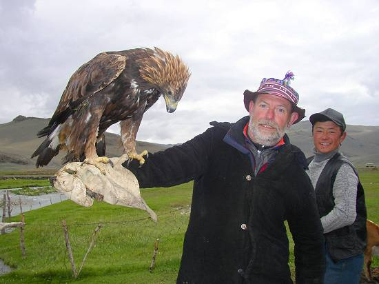 Eagle used for hunting in West-Mongolia